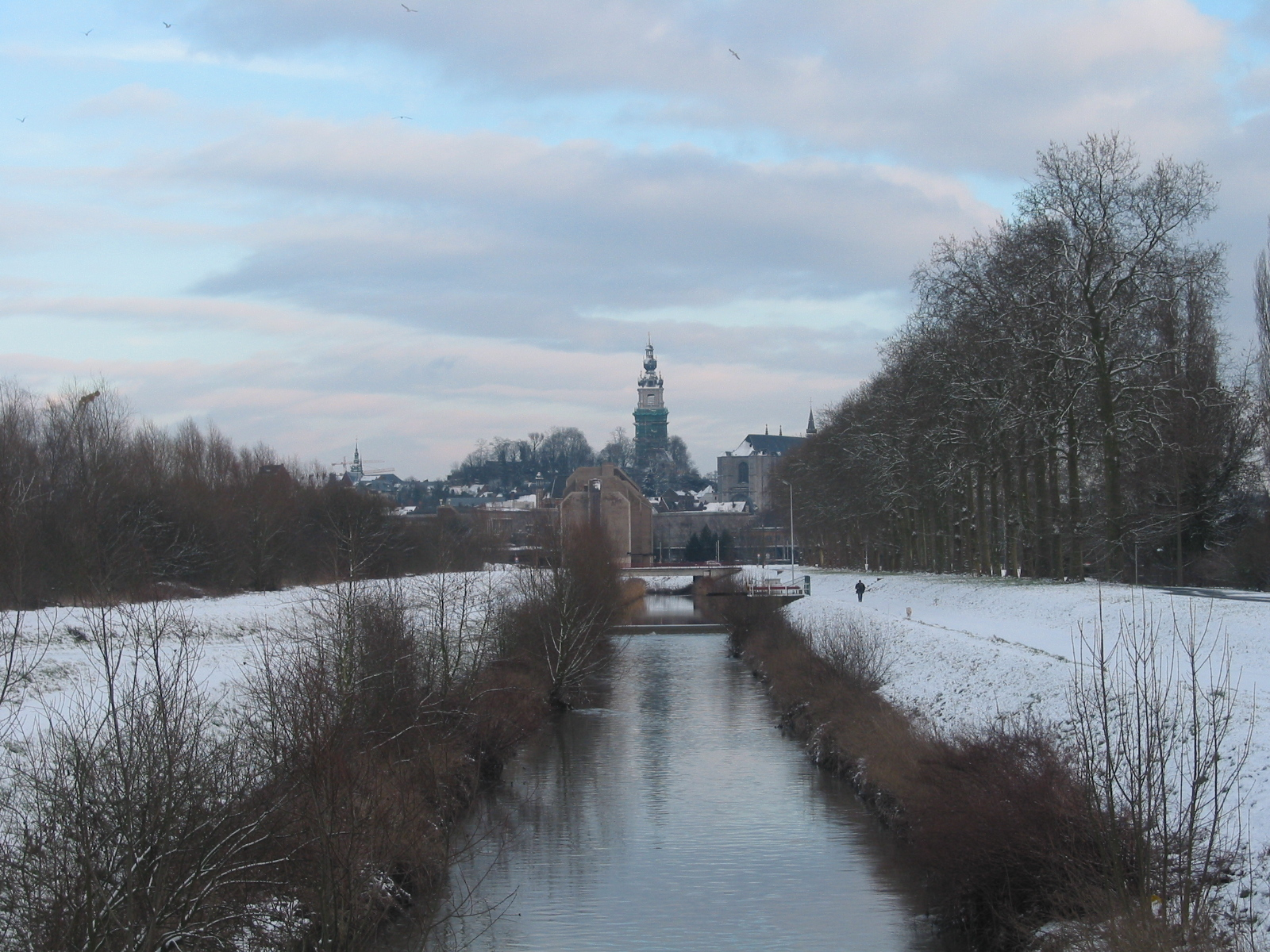 Mons (Belgium), the old city and the Haine river.